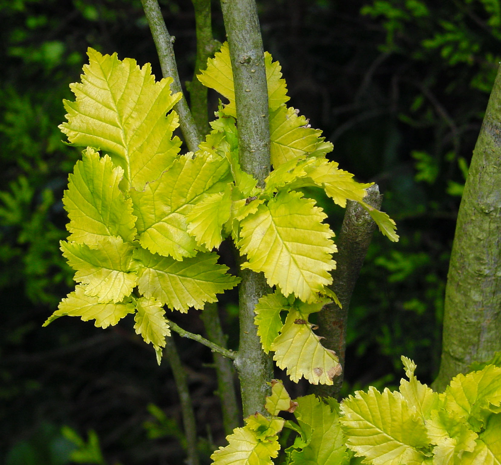 Golden Elm leaves